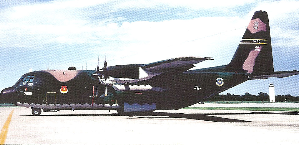 C-130E 63-7890 of the 317th TAW, Pope AFB, North Carolina, about 1977